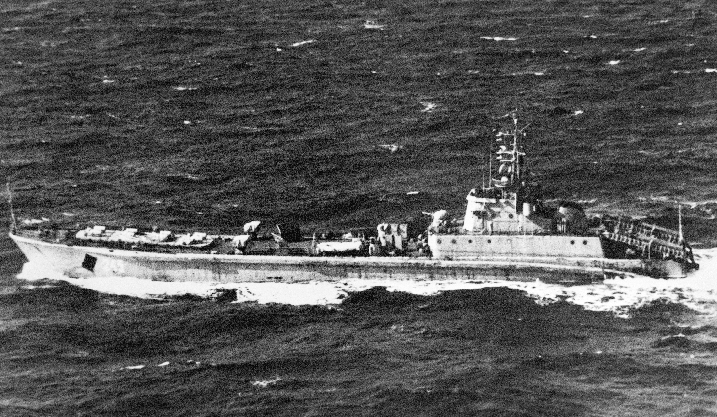 An aerial port beam view of a Soviet Polnochny class medium landing ship underway.